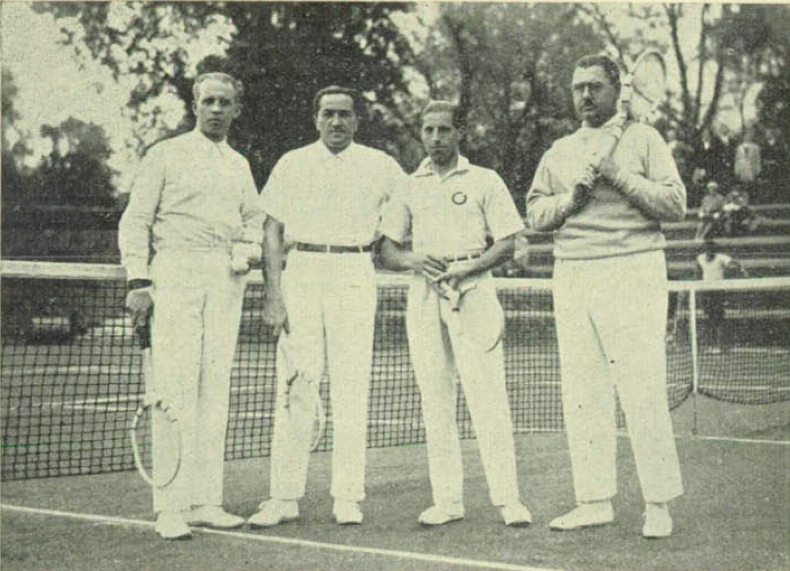 Tennis players, Jenő Pétery, Béla von Kehrling, Vladimir Landau and René Gallepe in Budapest in 1929